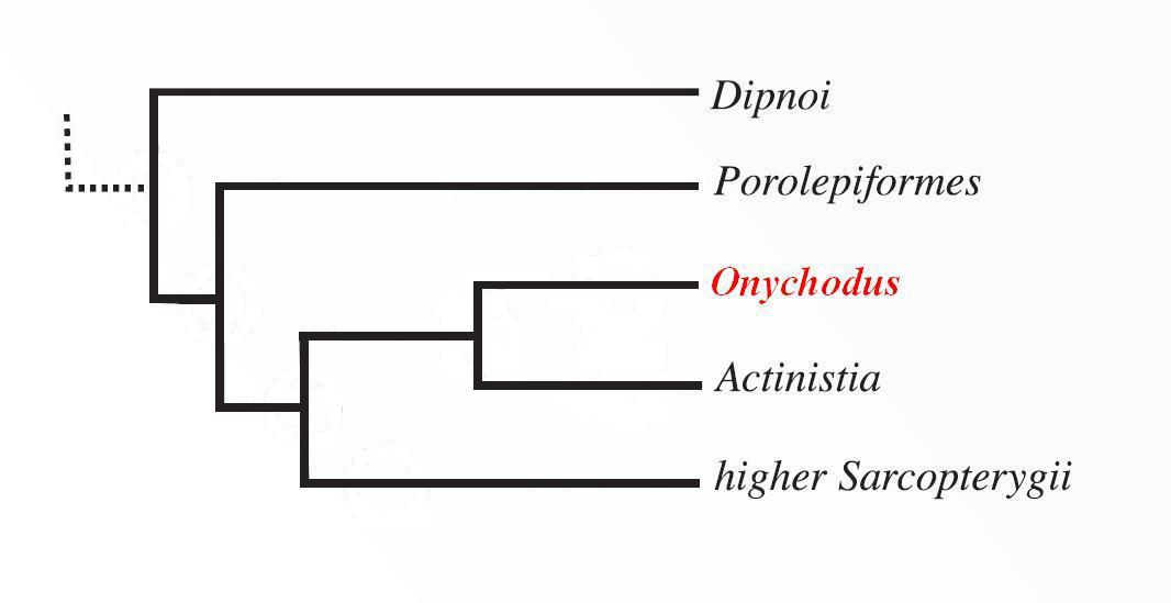 Position of Onychodus in cladogram.